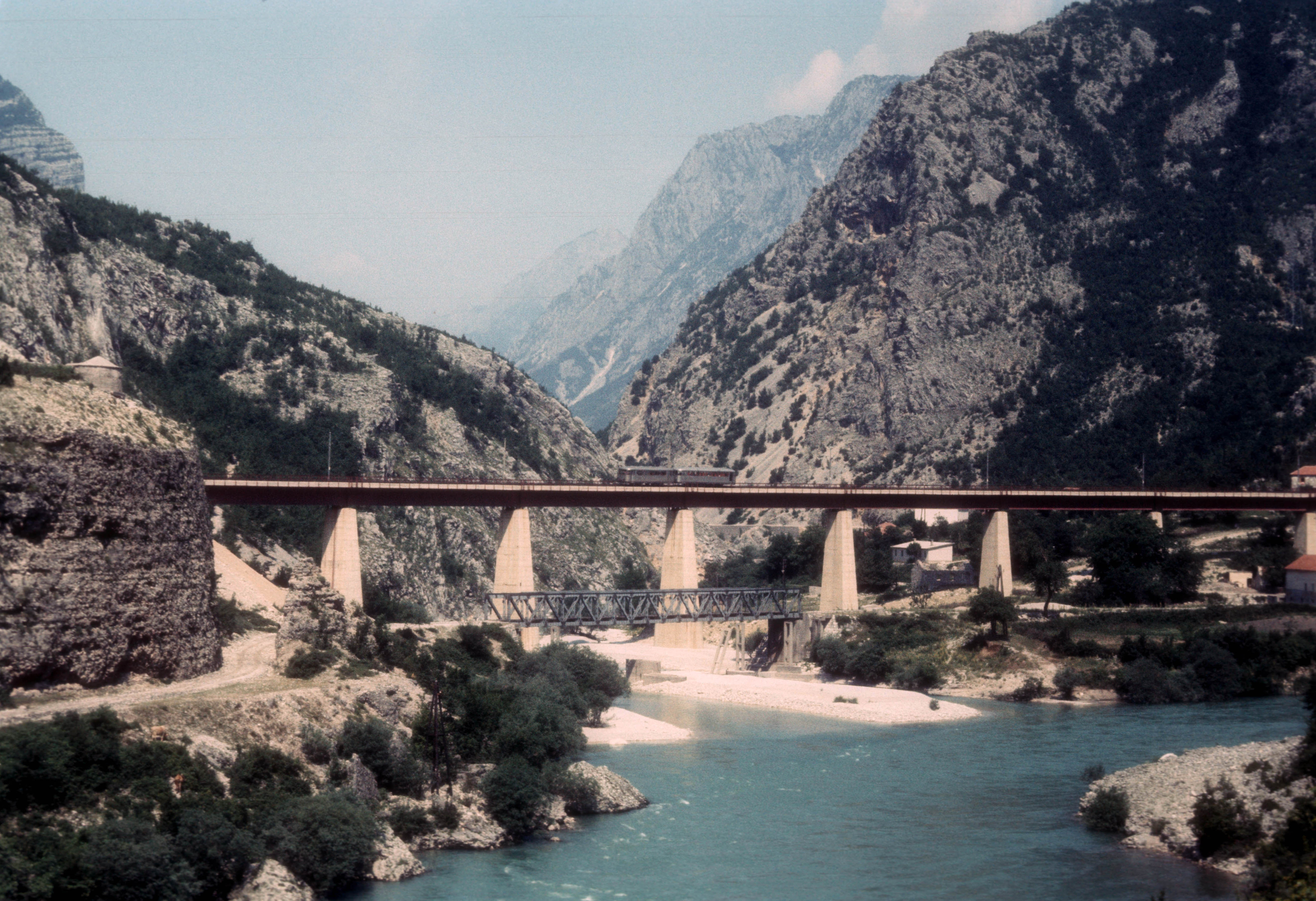 THESE BRIDGES ARE LOCATED BETWEEN SARAJEVO AND MOSTAR